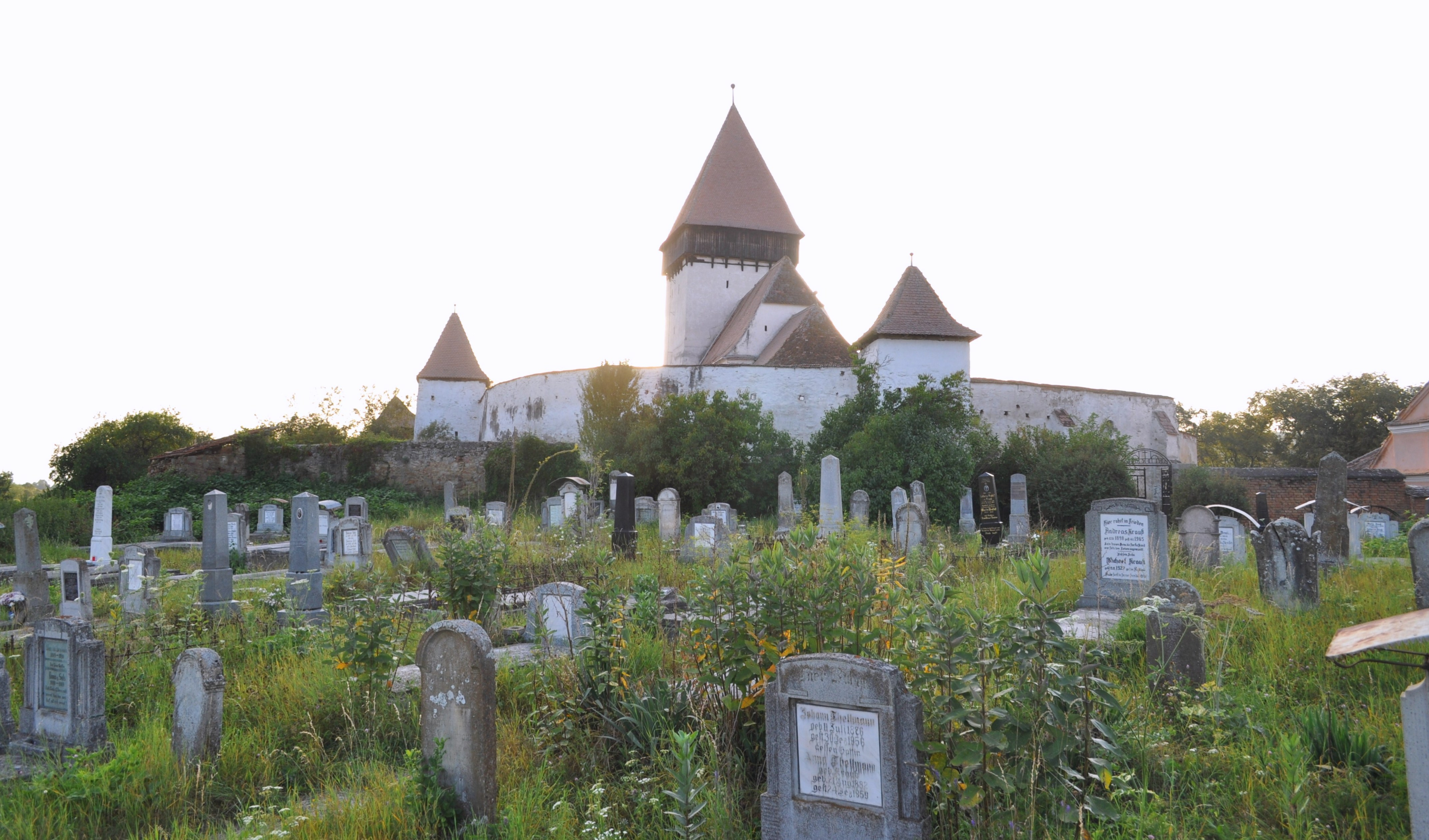 Saxon fortified church in Hosman, Sibiu countyRomână: Biserica evanghelică fortificată din Hosman, județul Sibiu